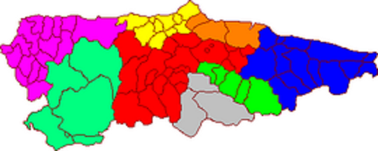 coloured version of comarcas of Asturias